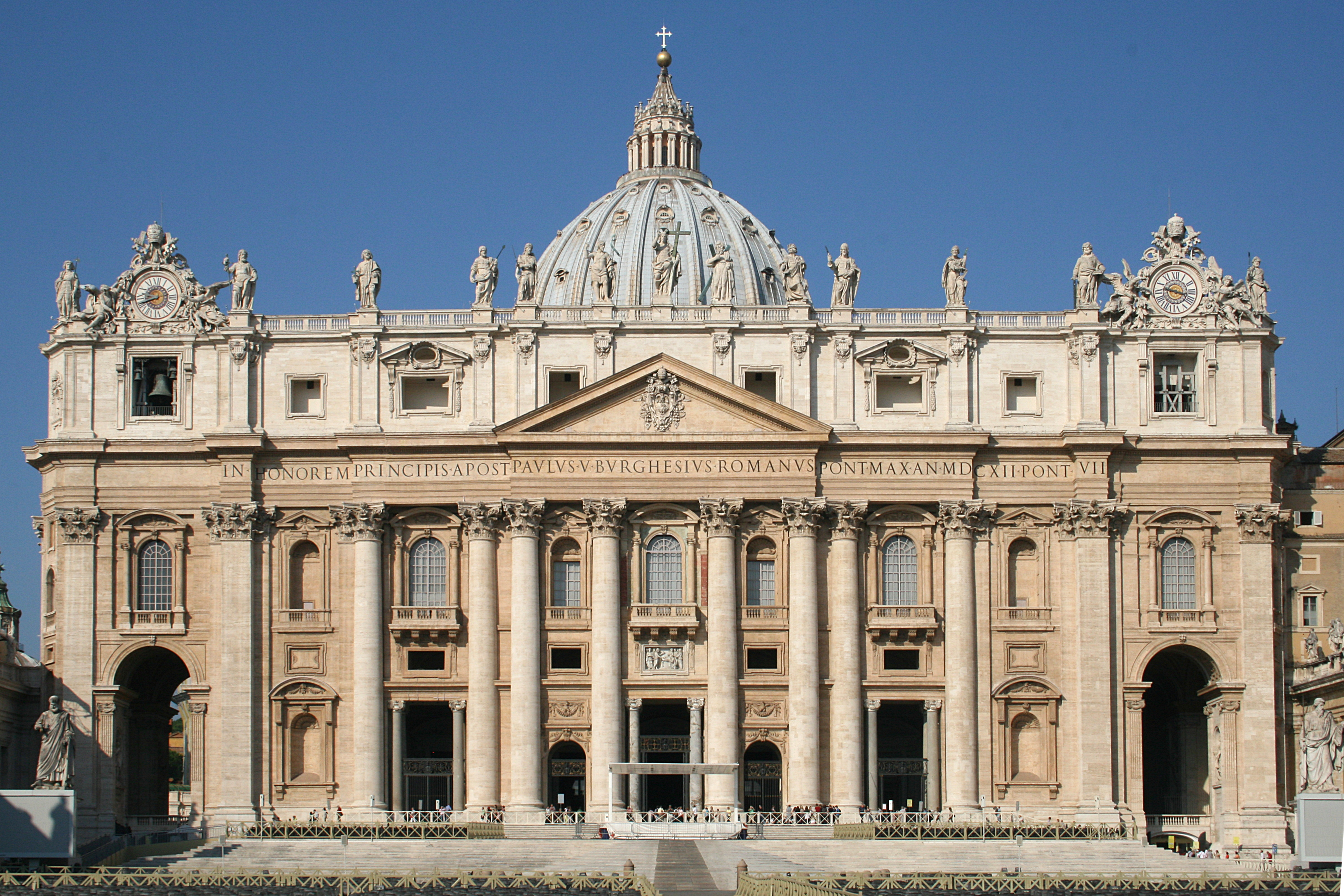 Façade of the St. Peter's Basilica in Vatican City.